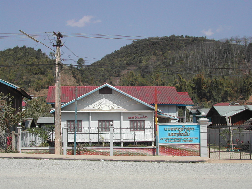 Building of Lao Front for National Construction of Houaphanh Province (in Sam Neua)